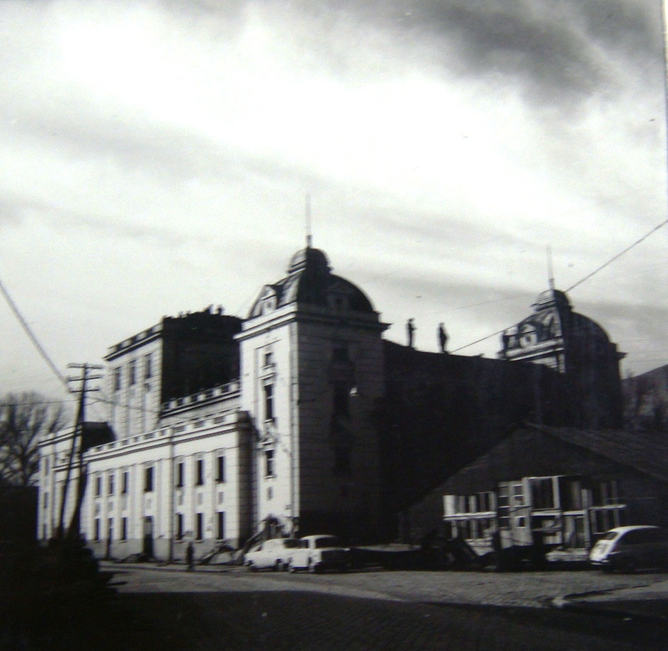 Skopje National Theater This media file is produced by Wikipedian in Residence in Category:Wikipedian in Residence at DARM in 2016.